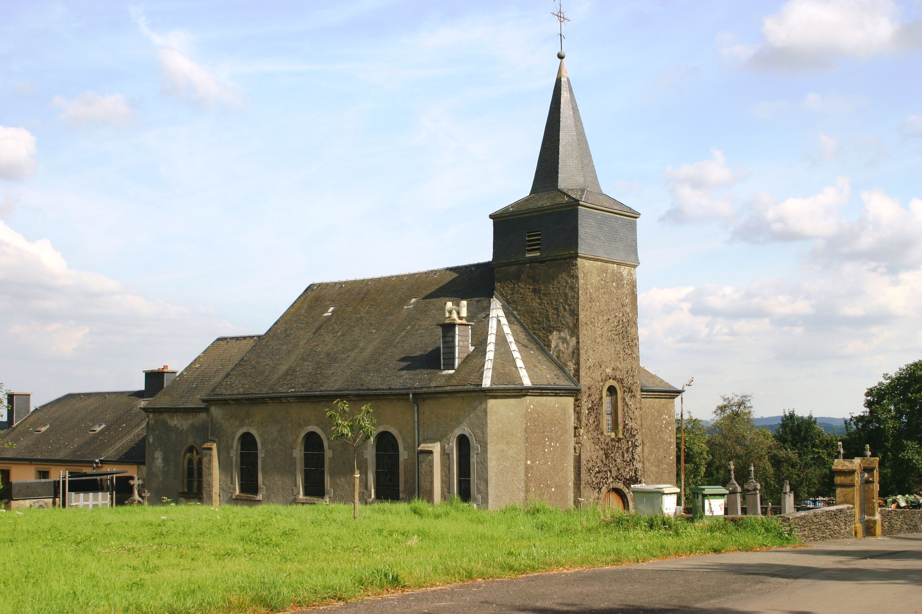 Schockville church, Belgium.